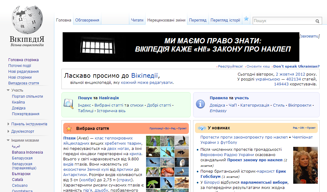 Ukrainian Wikipedia against the libel bill (Screenshot 2012-10-02)